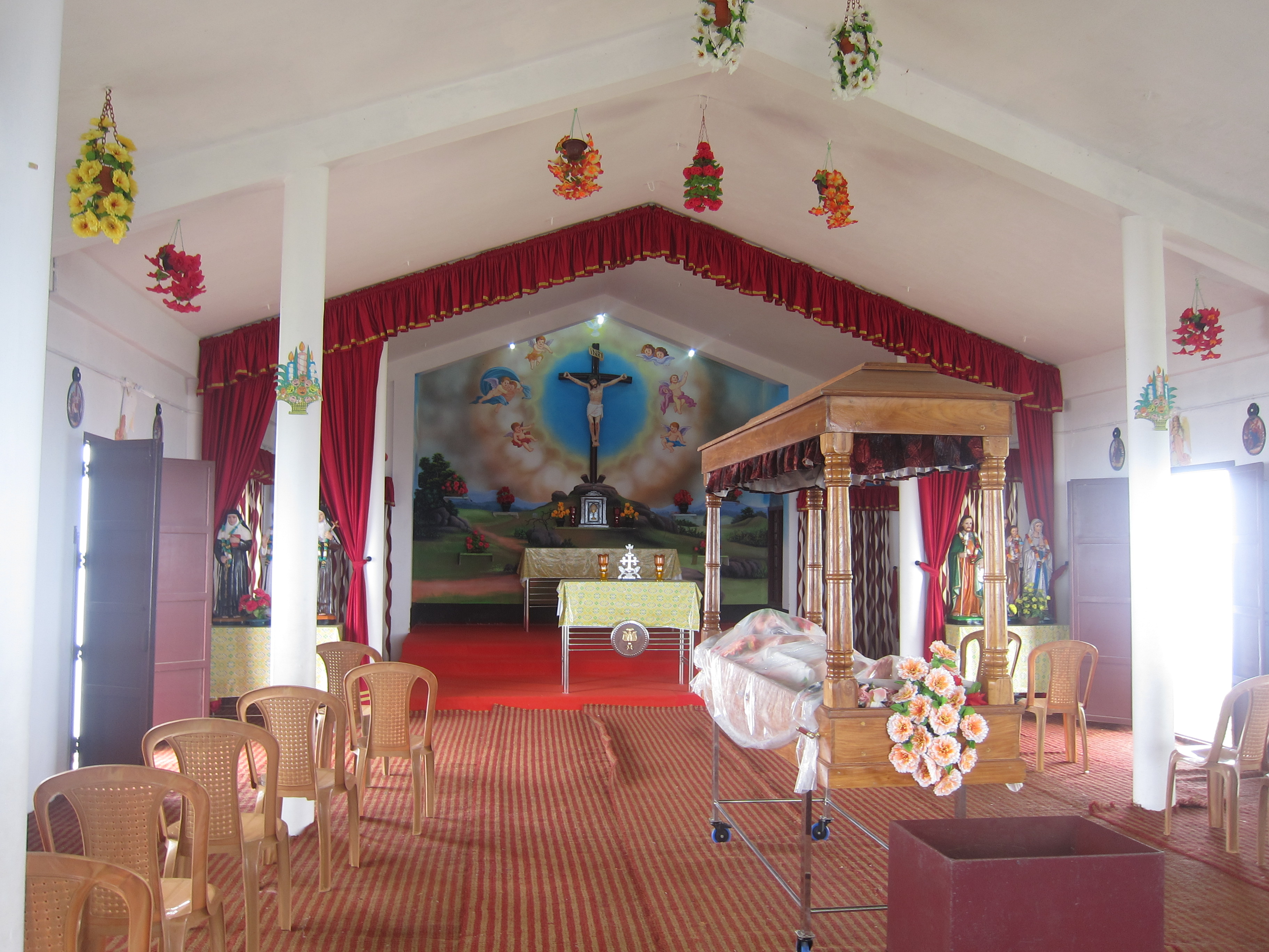 Vagamon Kurisumala - വാഗമൺ കുരിശുമല കോട്ടയം ജില്ലയിലെ വാഗമണിനടുത്താണ് ഈ കുരിശുമല St: Thomas Mount - സെന്റ് തോമസ് മൗണ്ട് കുരിശുമലയുടെ മുകളിലെ പള്ളിയുടെ ഉൾഭാഗം